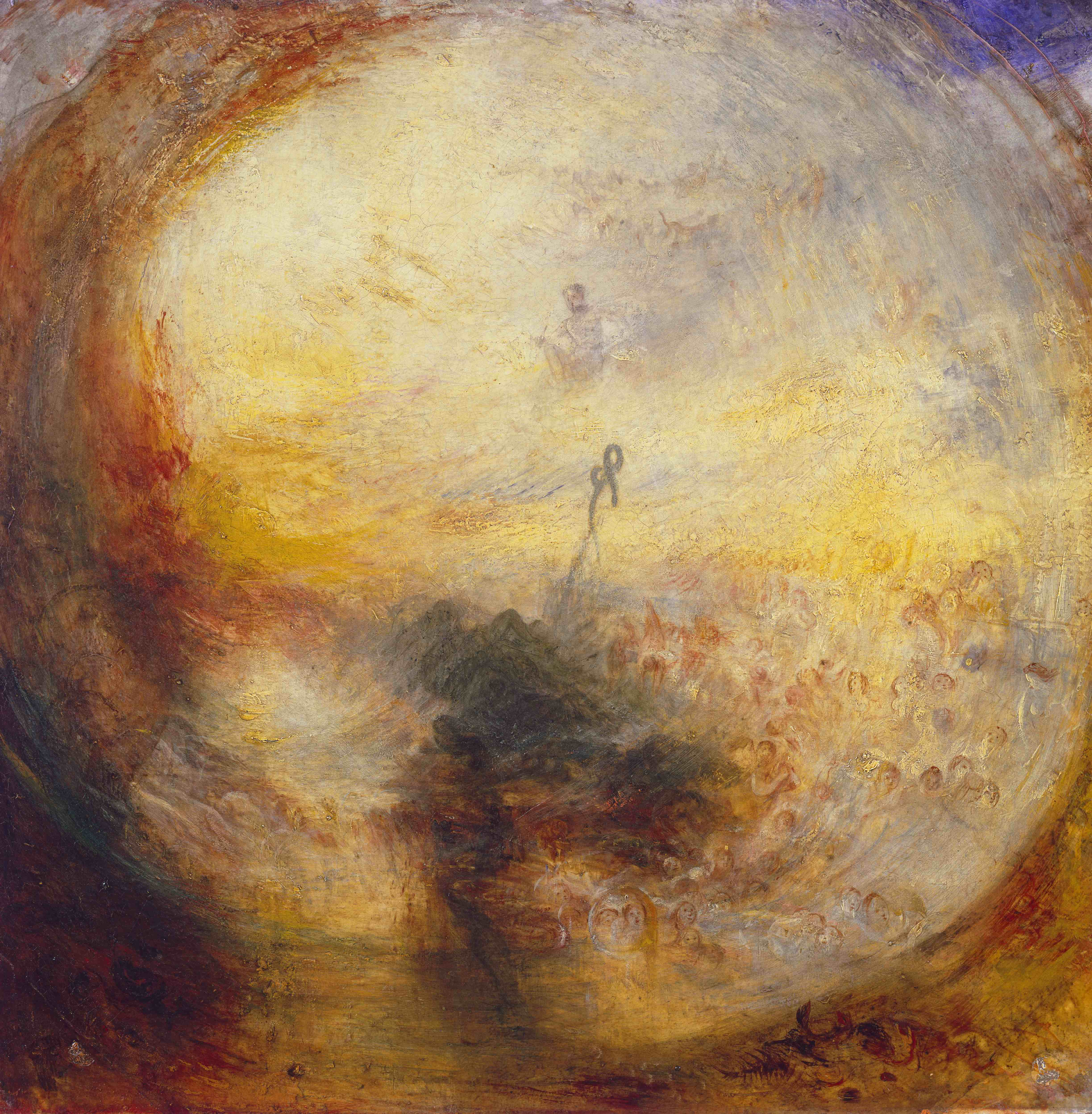 Light and Colour (Goethe's Theory) – The Morning after the Deluge – Moses Writing the Book of Genesislabel QS:Len,"Light and Colour (Goethe's Theory) – The Morning after the Deluge – Moses Writing the Book of Genesis" label QS:Lde,"Licht und Farbe: Der Morgen nach der Sintflut: Moses schreibt das Buch der Genesis" label QS:Lfr,"le matin après le déluge"